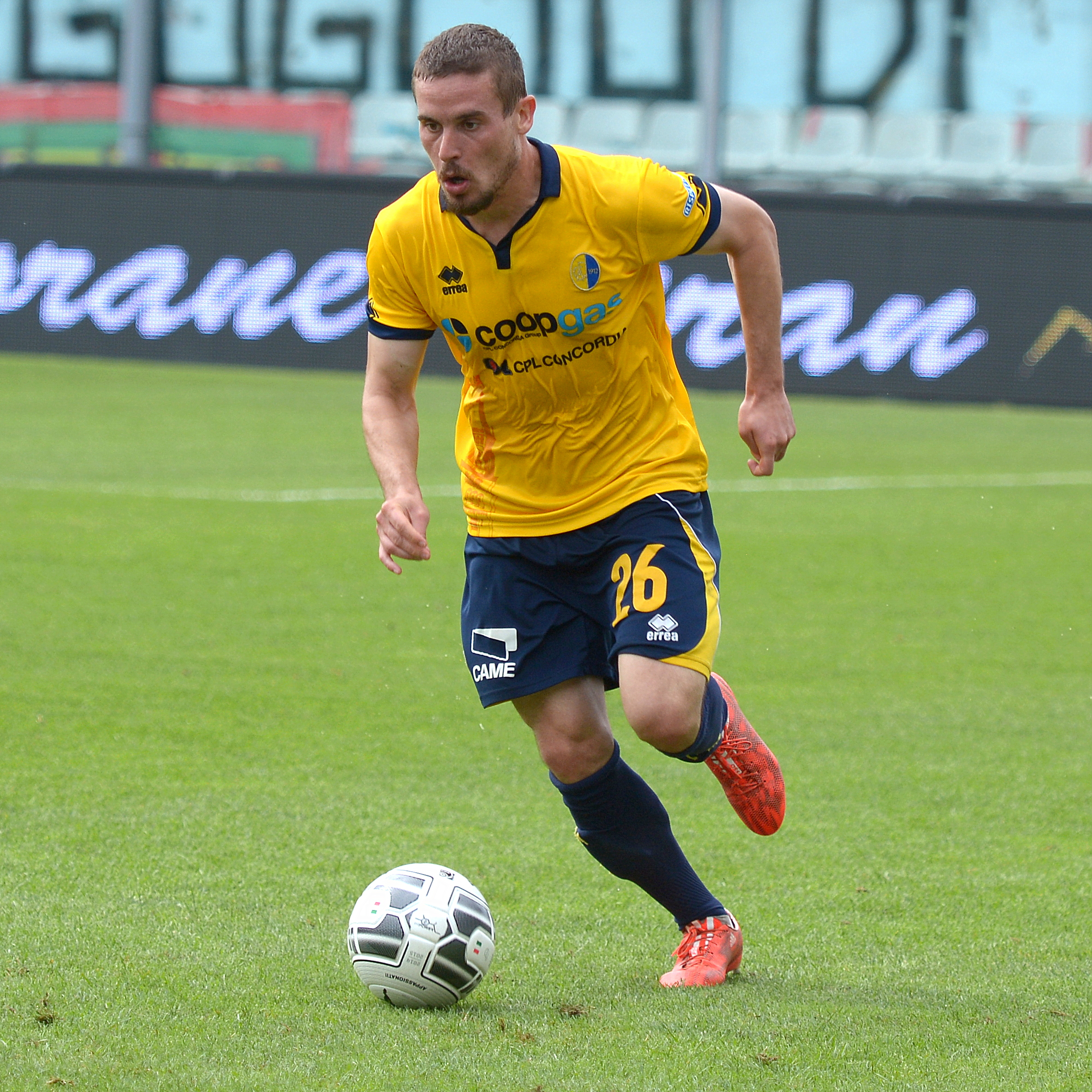 Francesco Signori in action during the match Modena versus Ternana